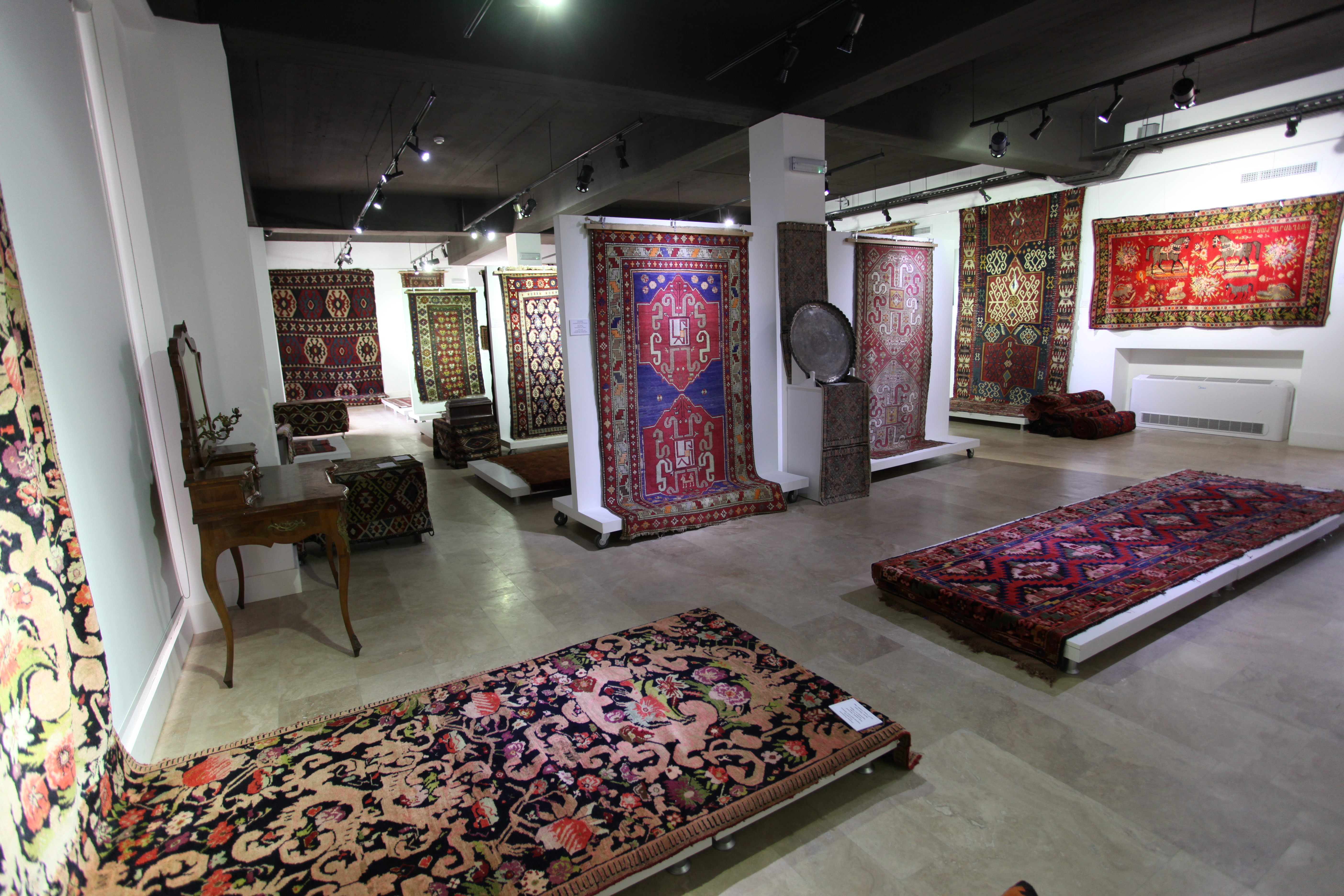 Carpets in Shushi